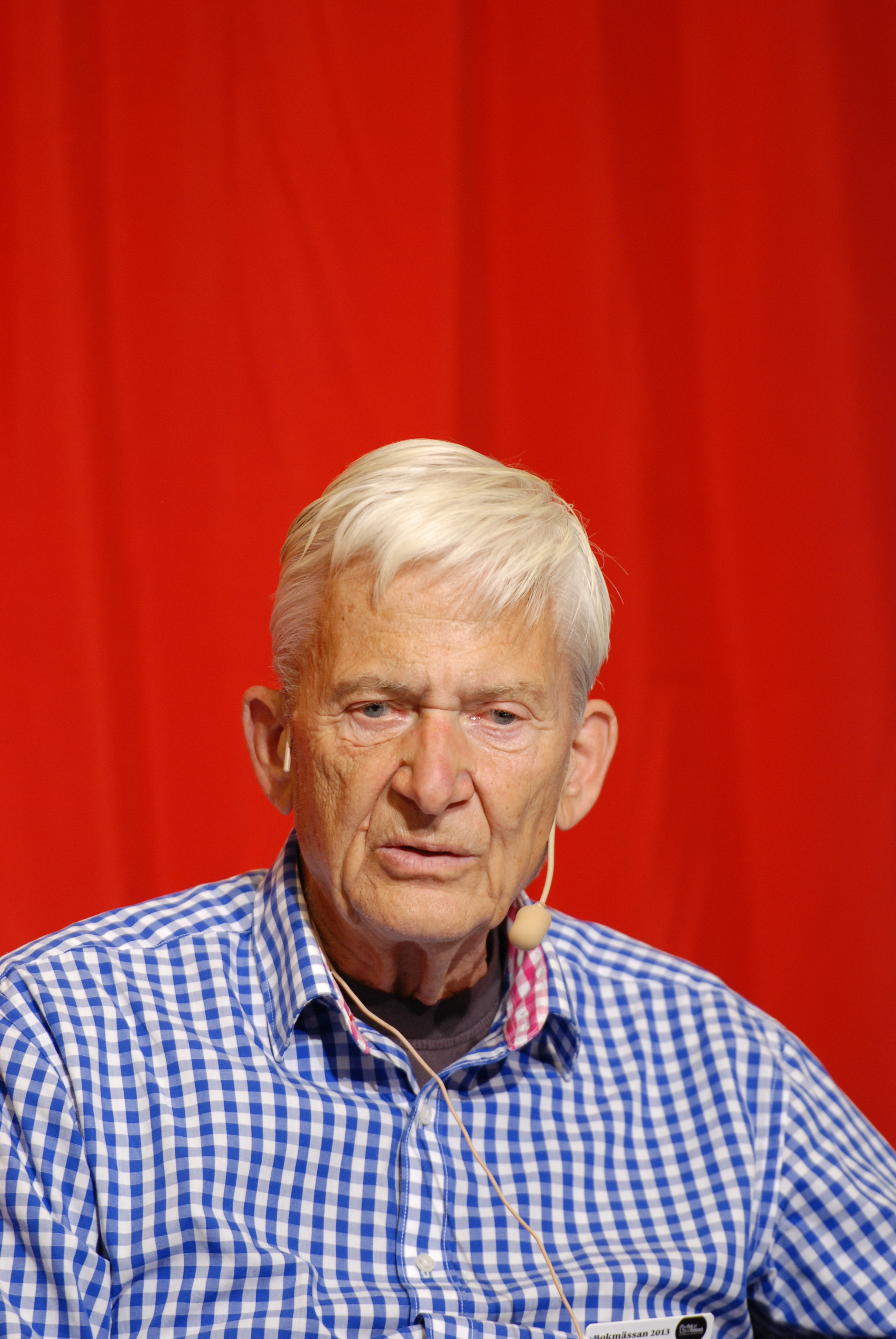 The Swedish writer P.O. Enquist at Göteborg Book Fair 2013.